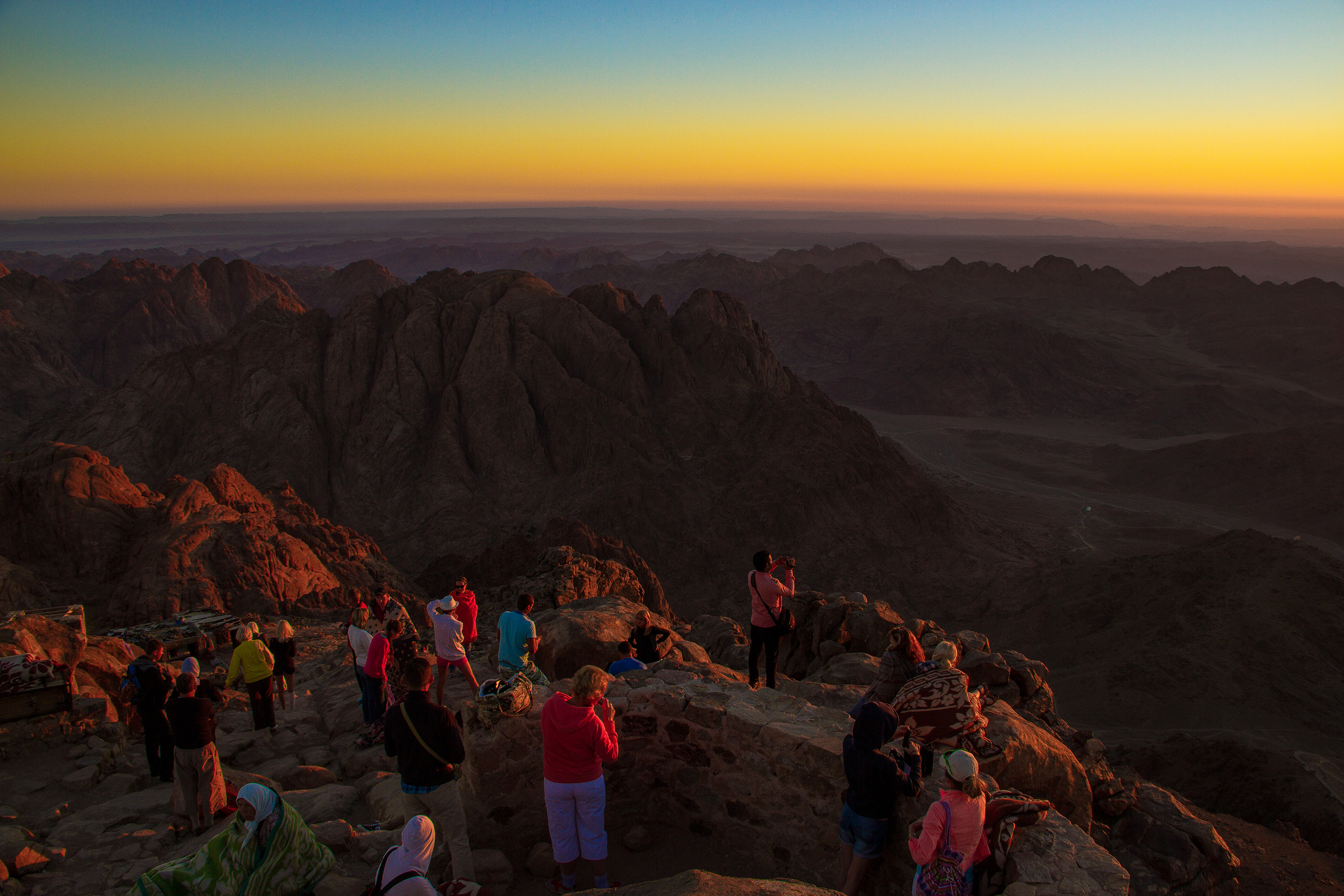 Jabal Moussa also known as Mount Sinai is a mountain located in the province of South Sinai in Egypt. And a height of 2285 meters above sea level, and called Jebel Musa ratio of God to the prophet Moses who spoke to the Lord in this mountain and received the Ten Commandments according to Judaism, Christianity and Islam religions. Is the most popular Sinai Mountains as it is visited by thousands of tourists, Valenazer from the top of the mountain could see beautiful scenes of the series surrounding mountains, especially in periods of rising and setting of the sun, and is located near Mount Catherine, which has a monastery of St. Catherine, is surrounded by the mountain range of the mountains of South Sinai tops . This is the holy mountain of the best land in the mountains of God, has been mentioned in the Koran has also been reported to Sinai where it is located, he has said of him God Ra bracket.png and developed Senen Aya-2.png this country and the Secretary-Aya-3.png La bracket. png There is a small mountain and Greek small church and a mosque. As snow falls on top of the mountain this winter as in all Egypt Mountains